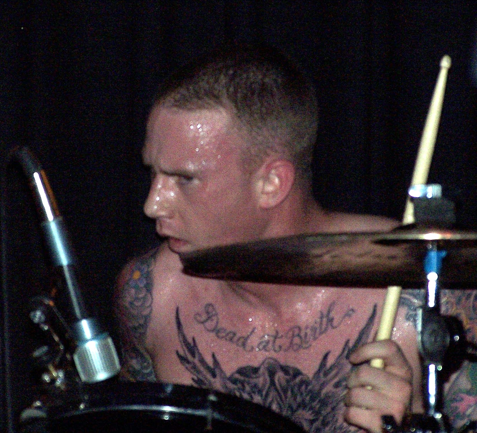 Nick Jett of Terror Los Angeles California during concert in Berlin, 2007 January 7th